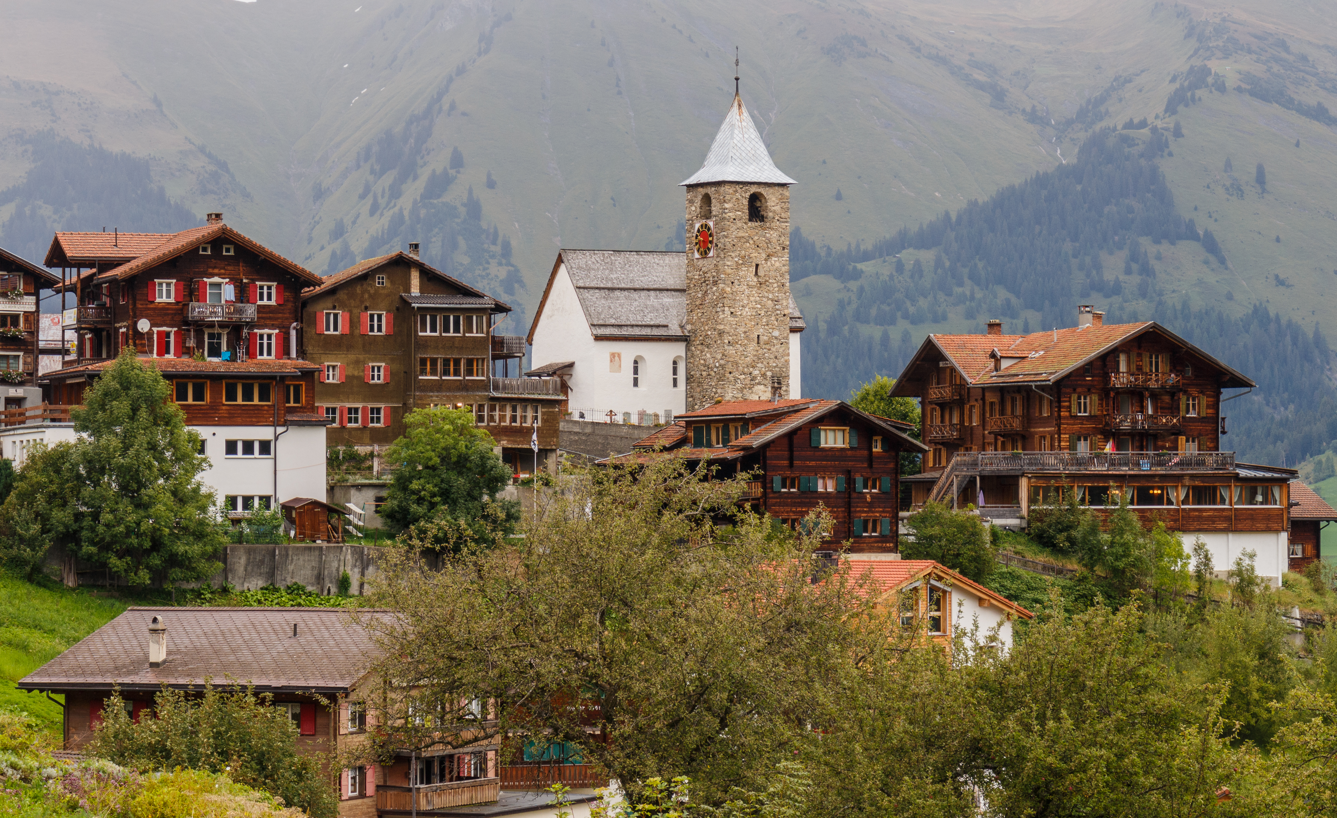 Mountain trip from Tschiertschen (1350 meters) via Ruchtobel to Löser (1680 meter).